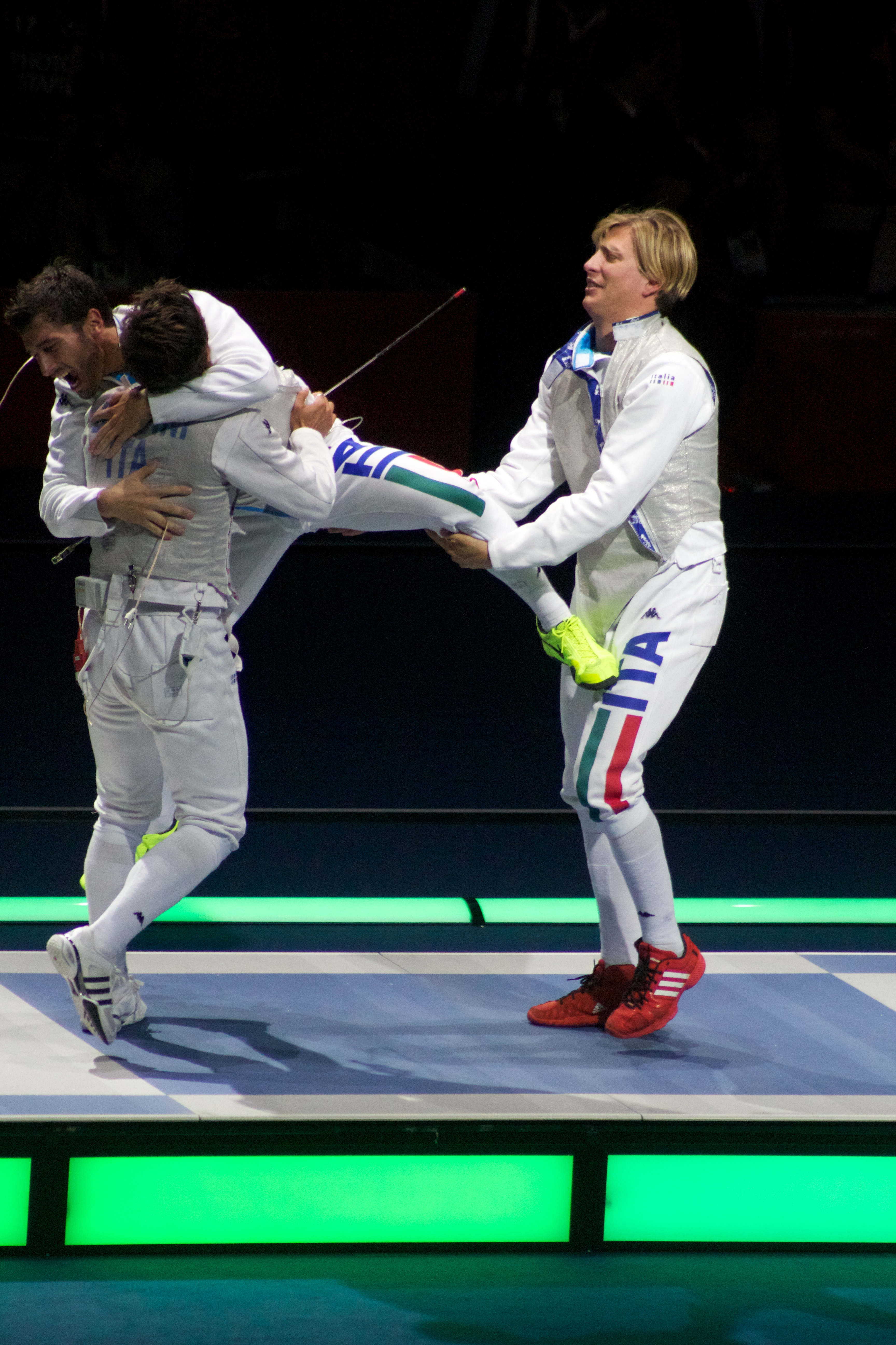 Fencing at the 2012 Summer Olympics